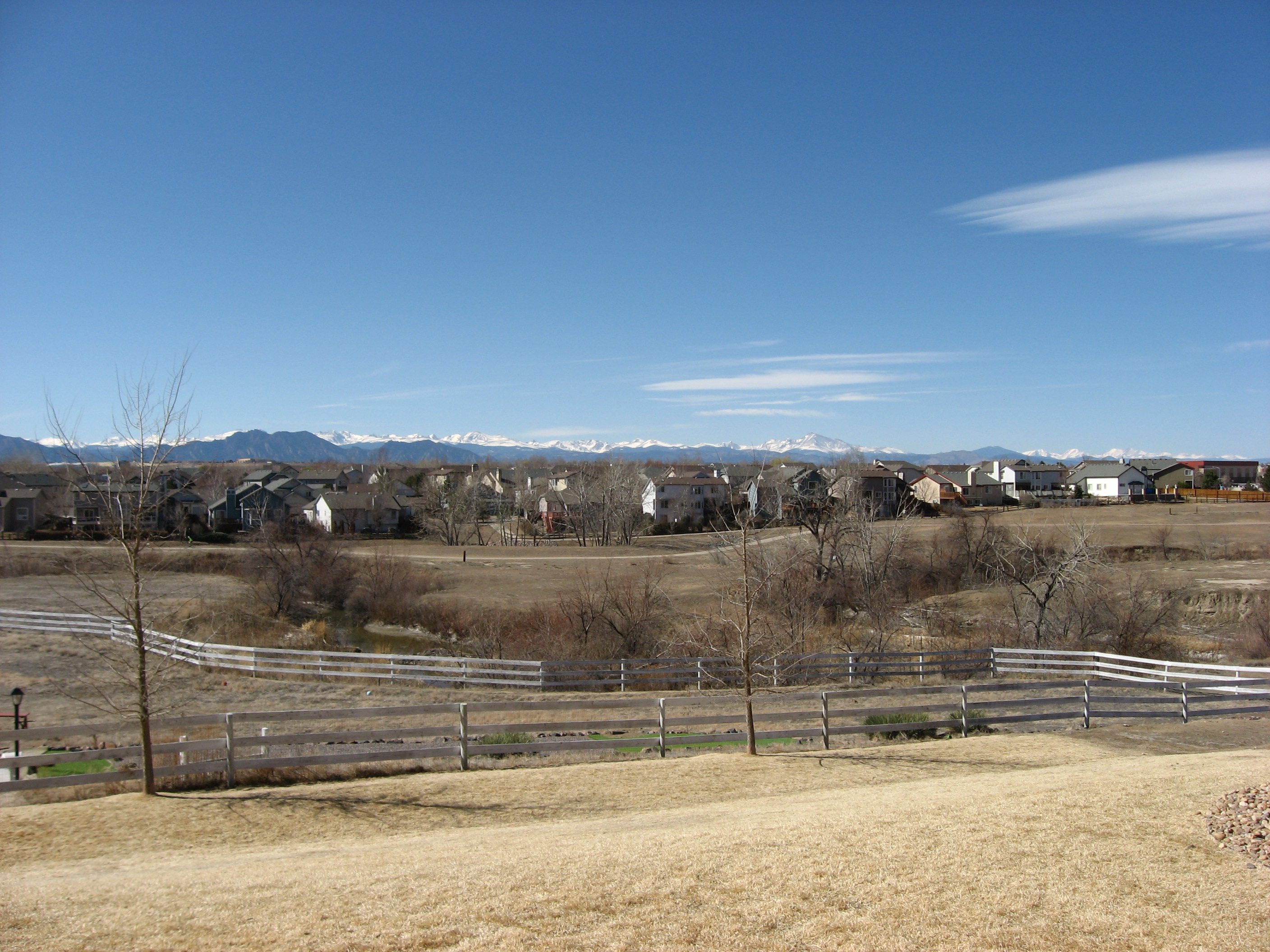 Houses in northeastern Westminster, Colorado, United States, with the Rocky Mountains in the background. The highest peak on the right side of the picture, underneath the lower of the two clouds, is Longs Peak.